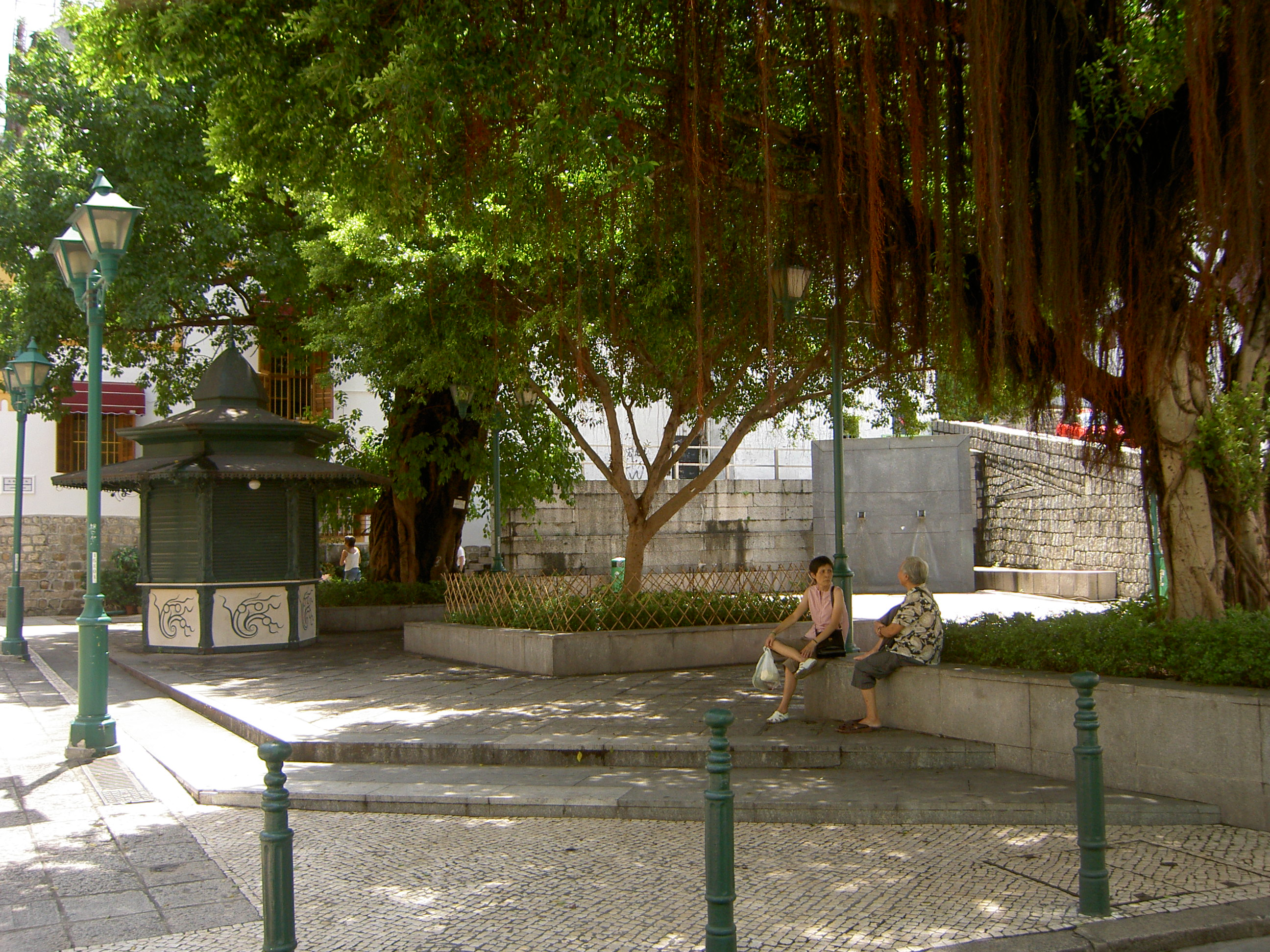 Lilau Square.Lilau Square is the first settle point of the Portuguese residents in Macau. Lilau Square is a part of the Historic Centre of Macau, a UNESCO's World Heritage Site.